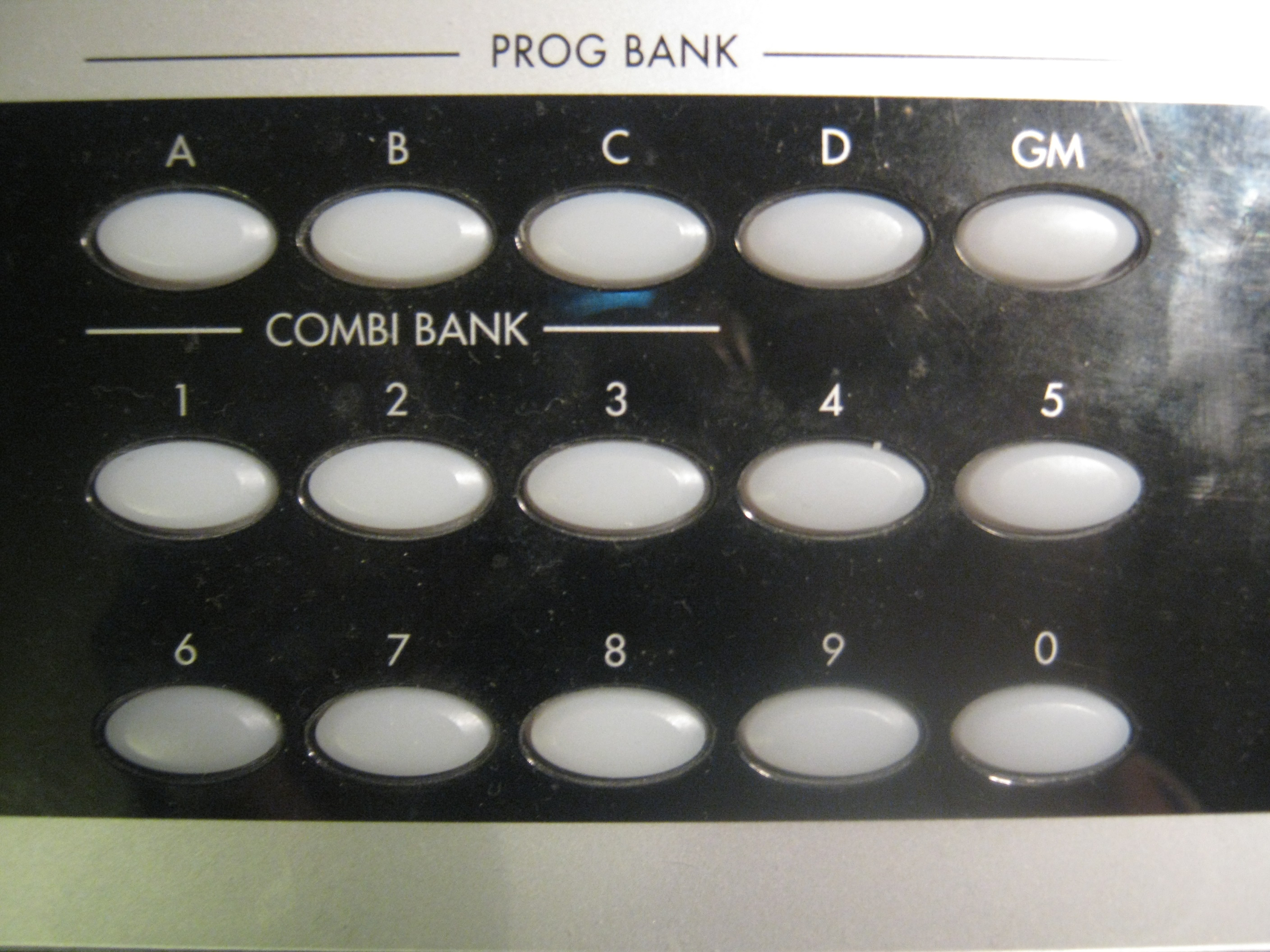 Korg X50 - piece with numerical buttons and buttons from banks of sounds